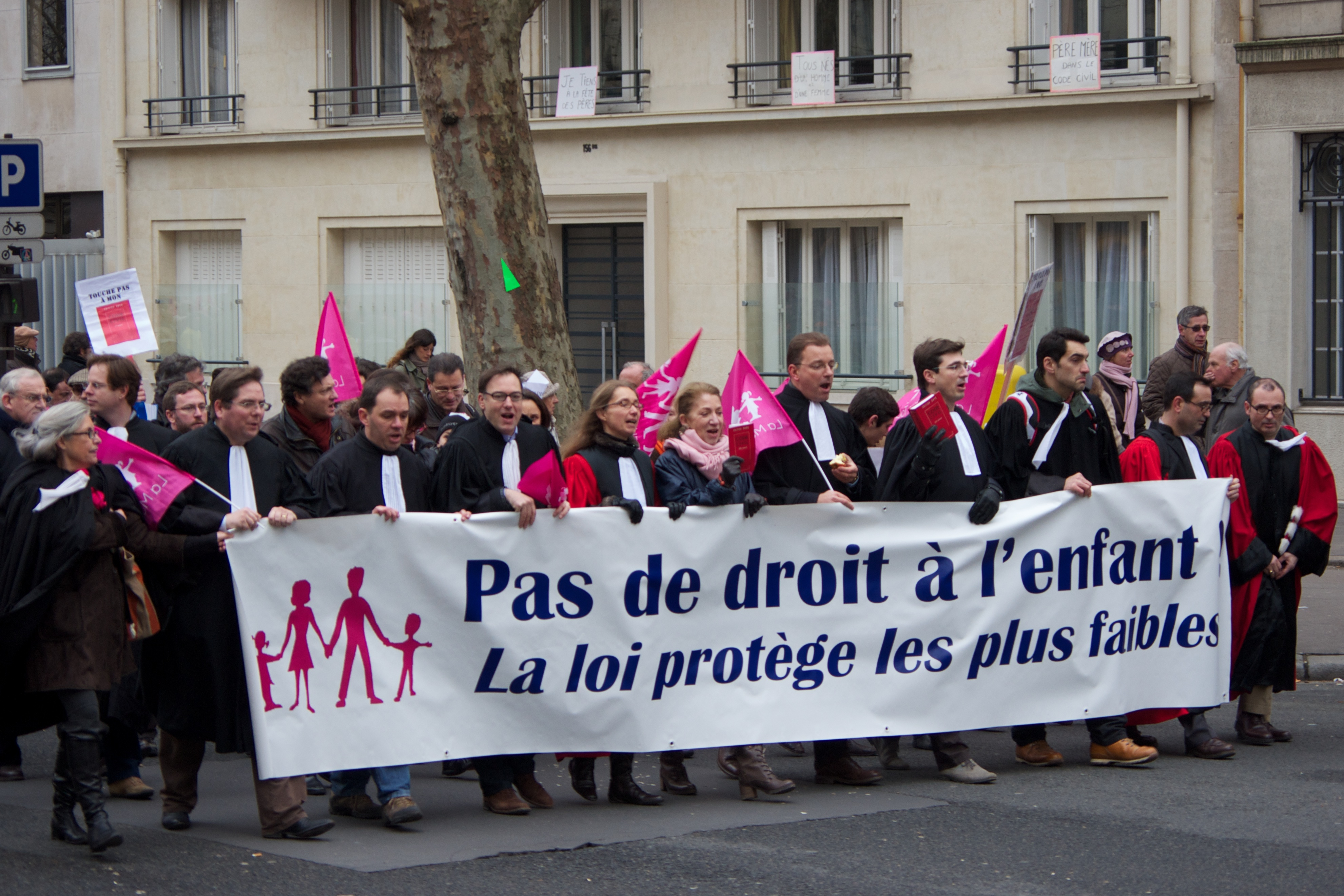 Demonstration against same-sex marriage in Paris, 13 January 2013.